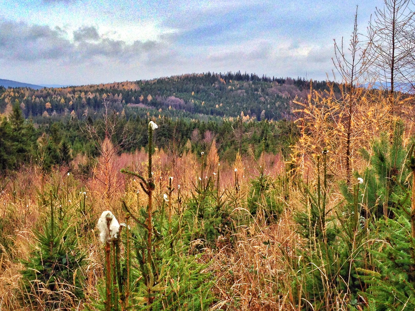 High Baba, a large wooded hill on the ridge near Kuchyňka